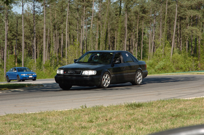 Picture purchased by me, of myself, for any use.